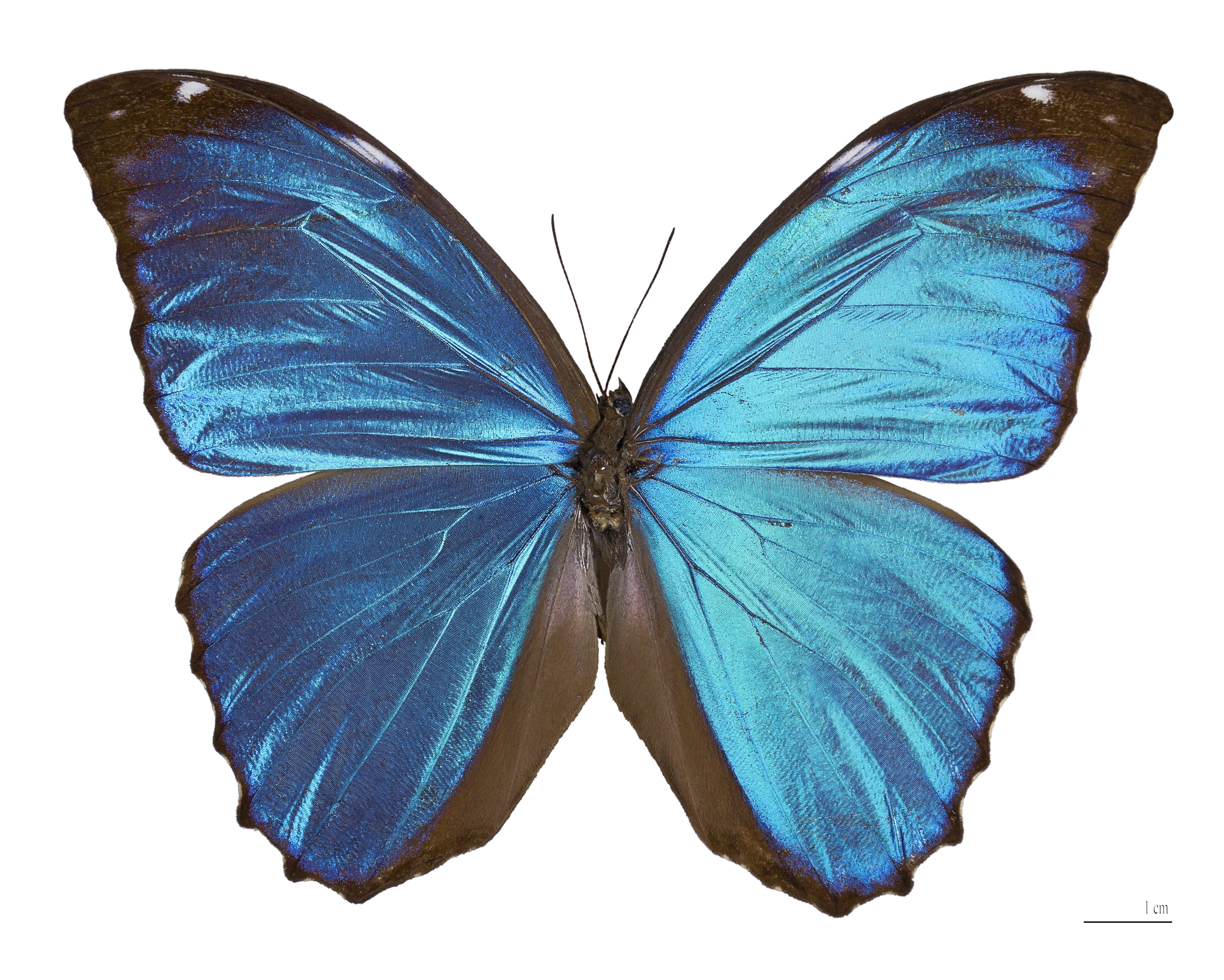 Male - Dorsal side Locality: Pará, Brasil